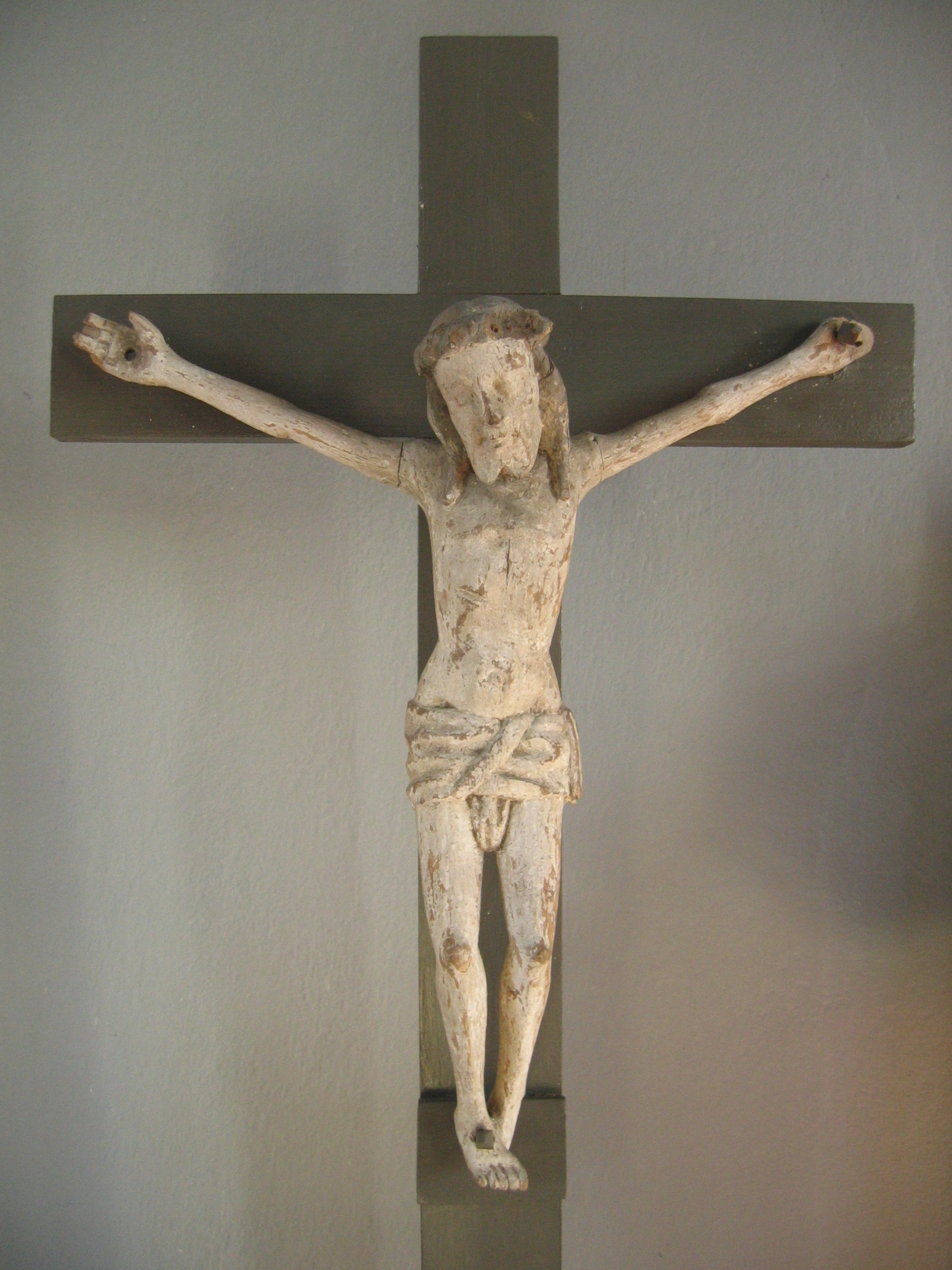 A wooden medieval crucifix in Mietoinen church, Finland. Crucifix originally from the Hietamäki chapel.